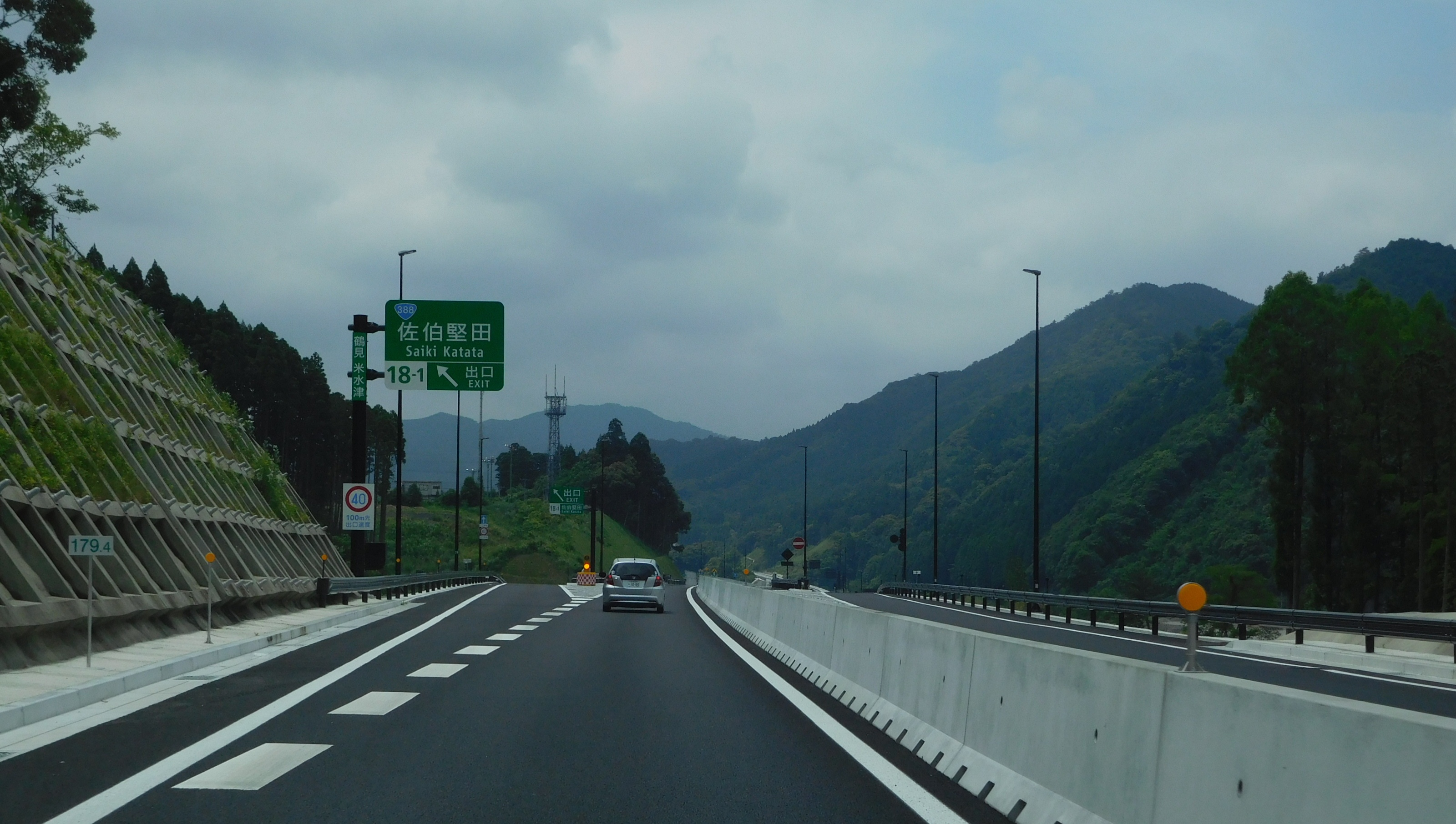 The Higashi-Kyushu Expressway at Katata Area, Saiki City, Oita Prefecture, Japan.